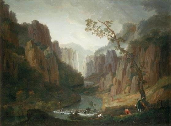 Landscape Valley Derbyshire